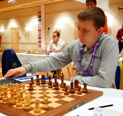 Alexander Areshchenko at the 2013 Chess World Cup